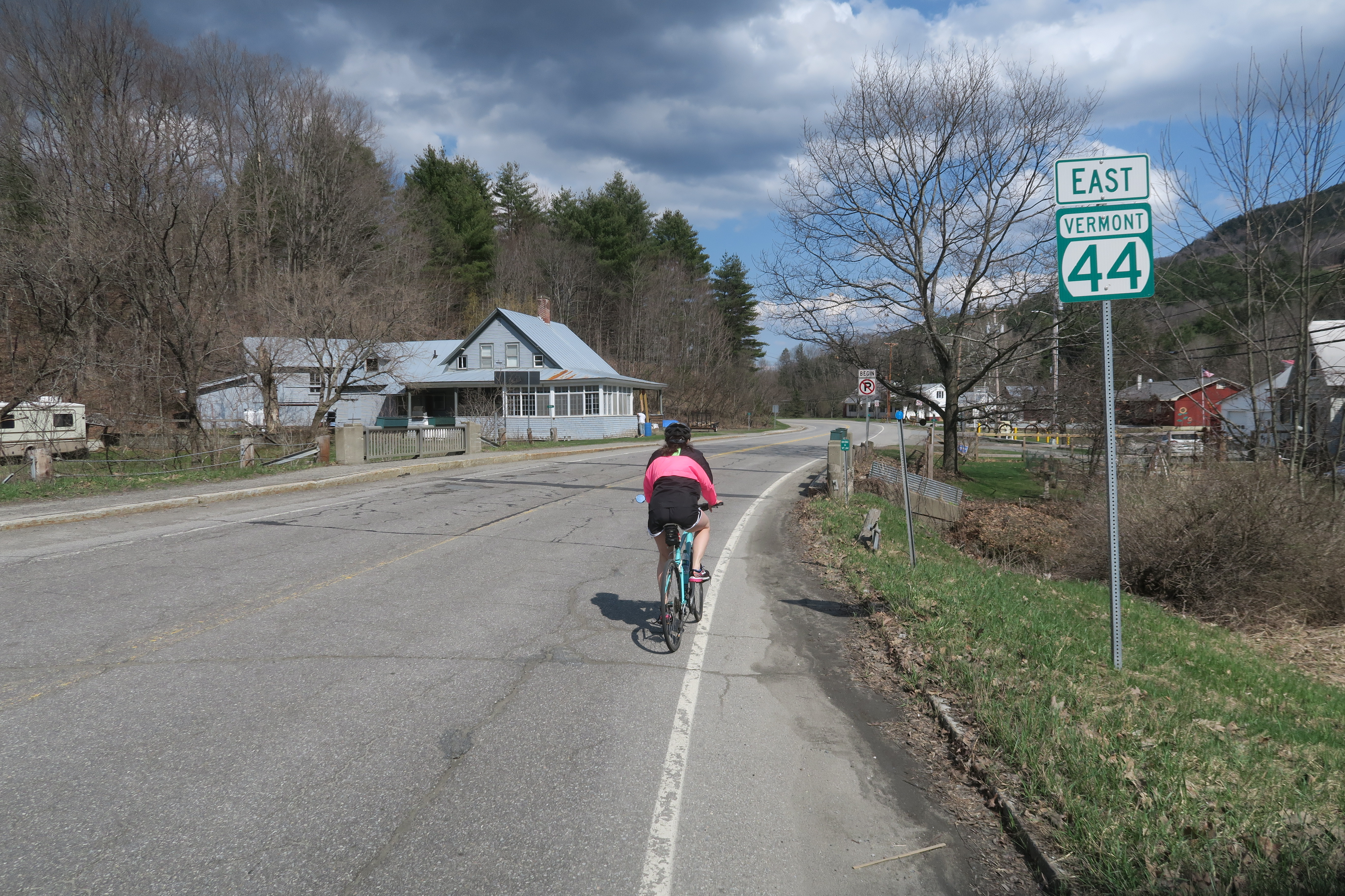 VT Route 44 eastbound, West Windsor Vermont